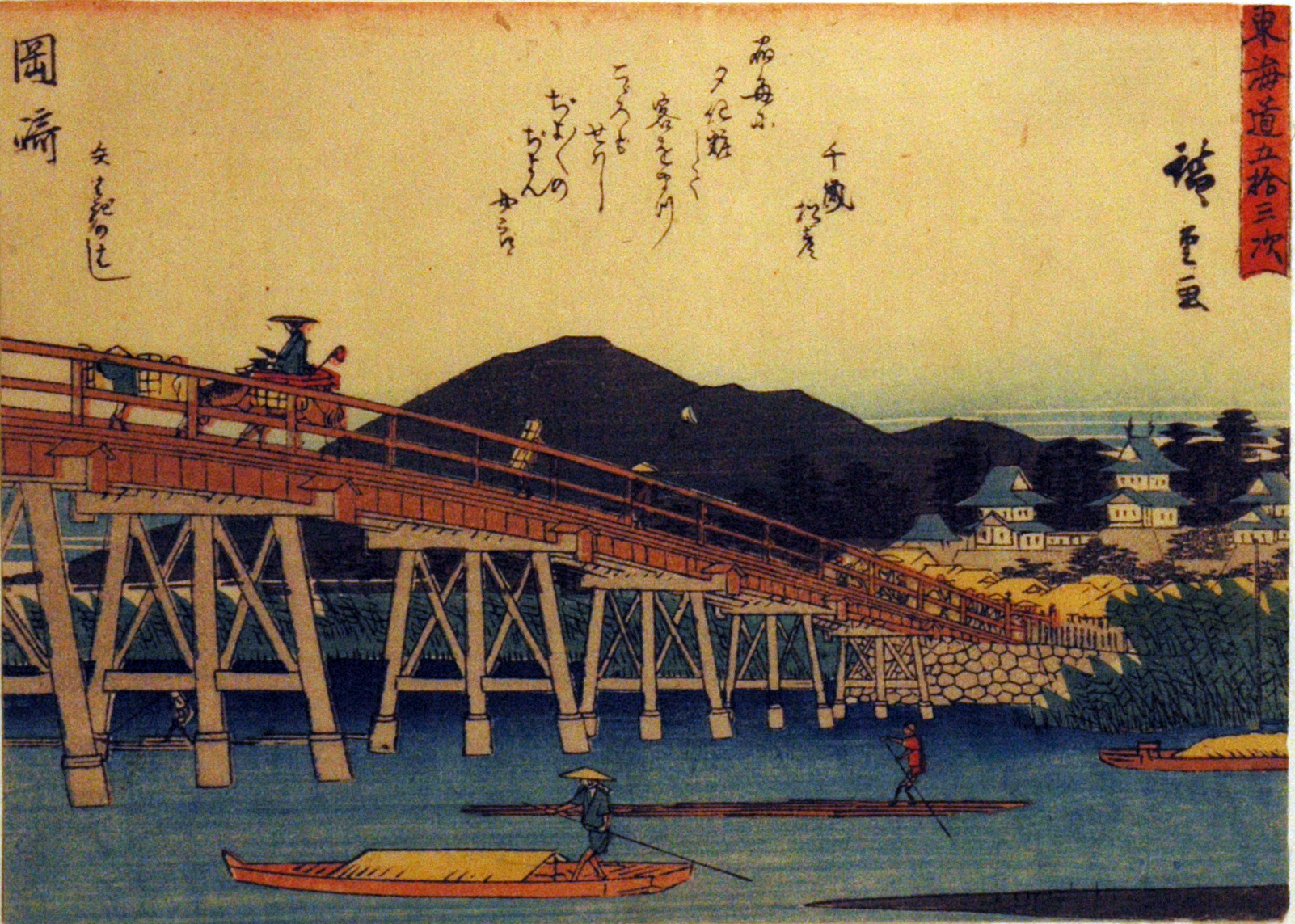 Accession Number: 1965.92.39 Display Artist: Utagawa Hiroshige Display Title: Okazaki Series Title: "Fifty-three Stations of the Tokaido Road, known as "Kyoka Tokaido"" Suite Name: Tokaido gojusantsugi Creation Date: 1838-1840 Height: 5 3/4 in. Width: 8 in. Display Dimensions: 5 3/4 in. x 8 in. (14.61 cm x 20.32 cm) Publisher: Sanoya Kihei Credit Line: Gift of Mrs. Harold Rhody Witherbee Collection: The San Diego Museum of Art